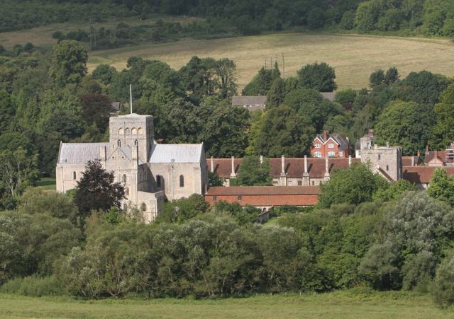 Looking W from St. Catherine's Hill. Hospital was founded in the 1130s by Bishop Henry of Blois to support the poor.